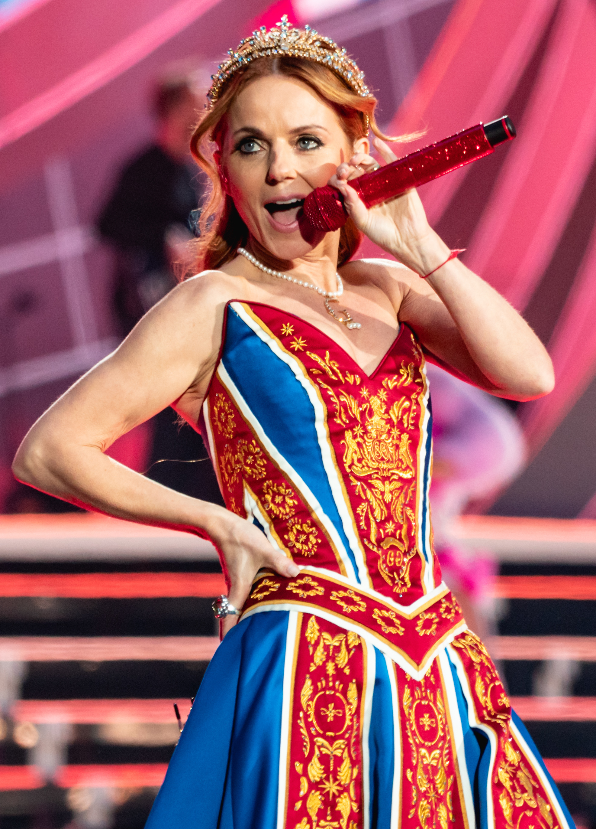 SpiceGirlWembley150619-22